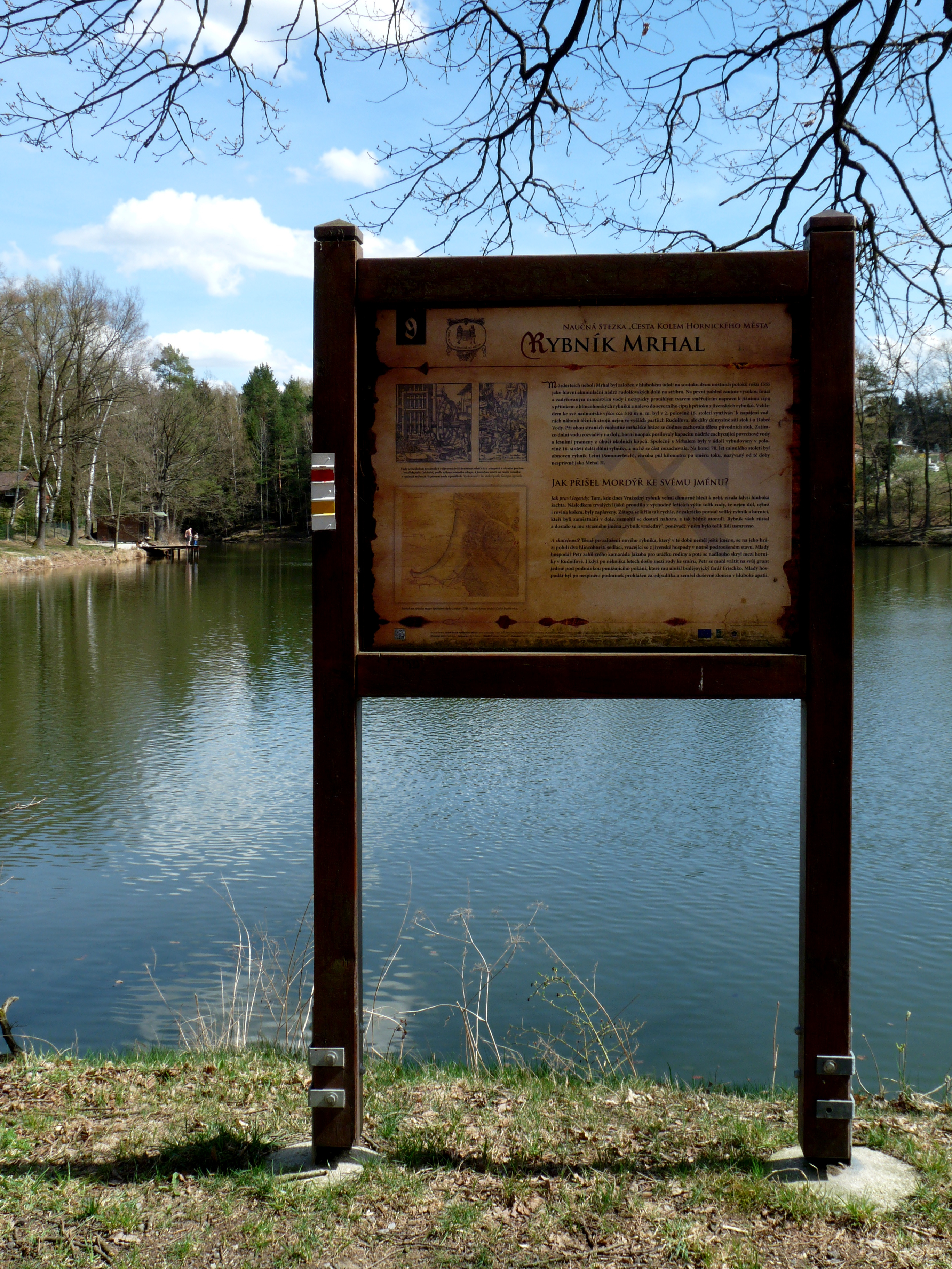 Educational trail Cesta kolem hornického města is an educational trail near the town of Rudolfov, south Bohemia, Czech Republic, information board No 9.